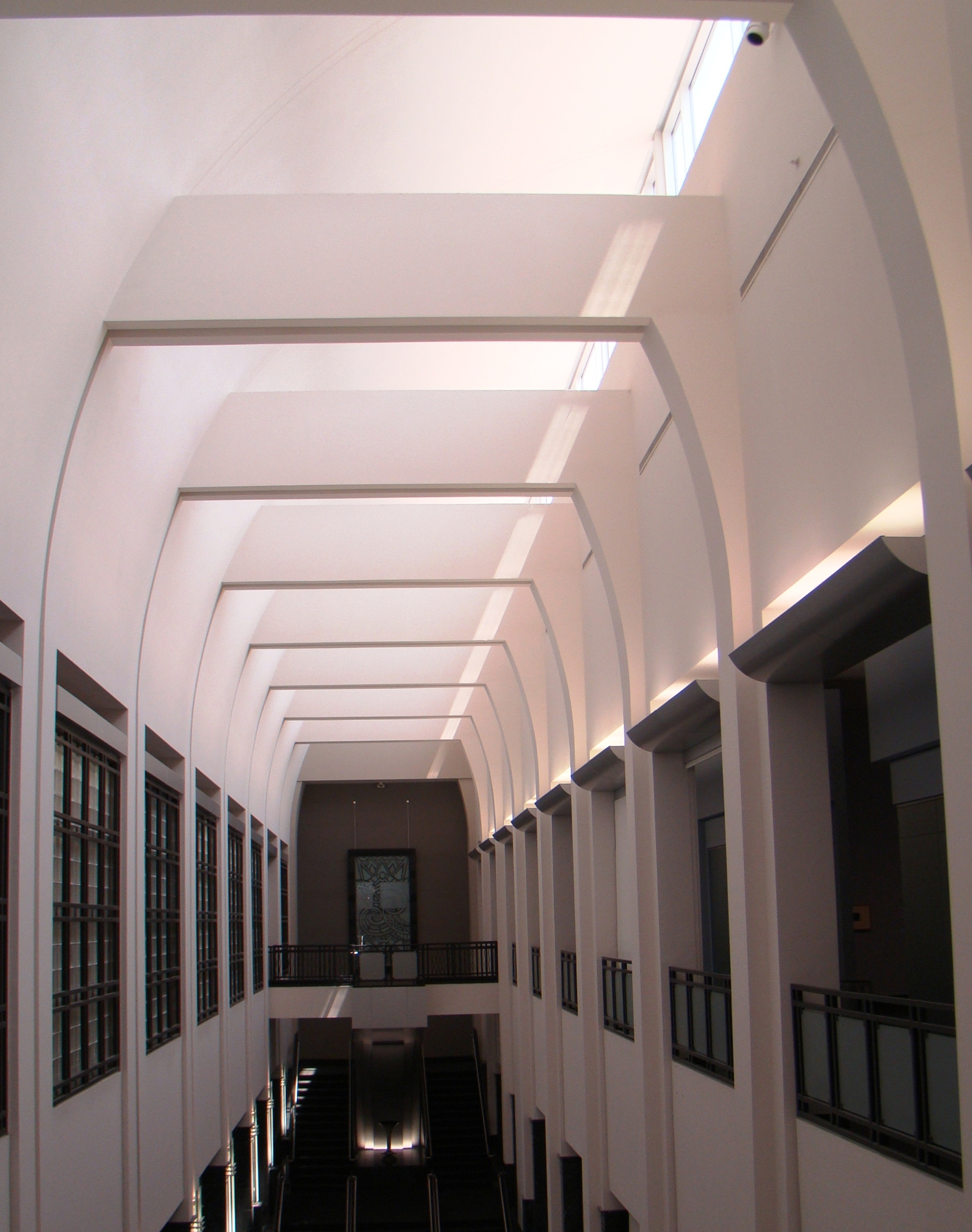 US Post Office interior detail